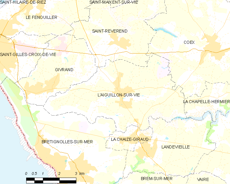 Map of French municipality L'Aiguillon-sur-Vie